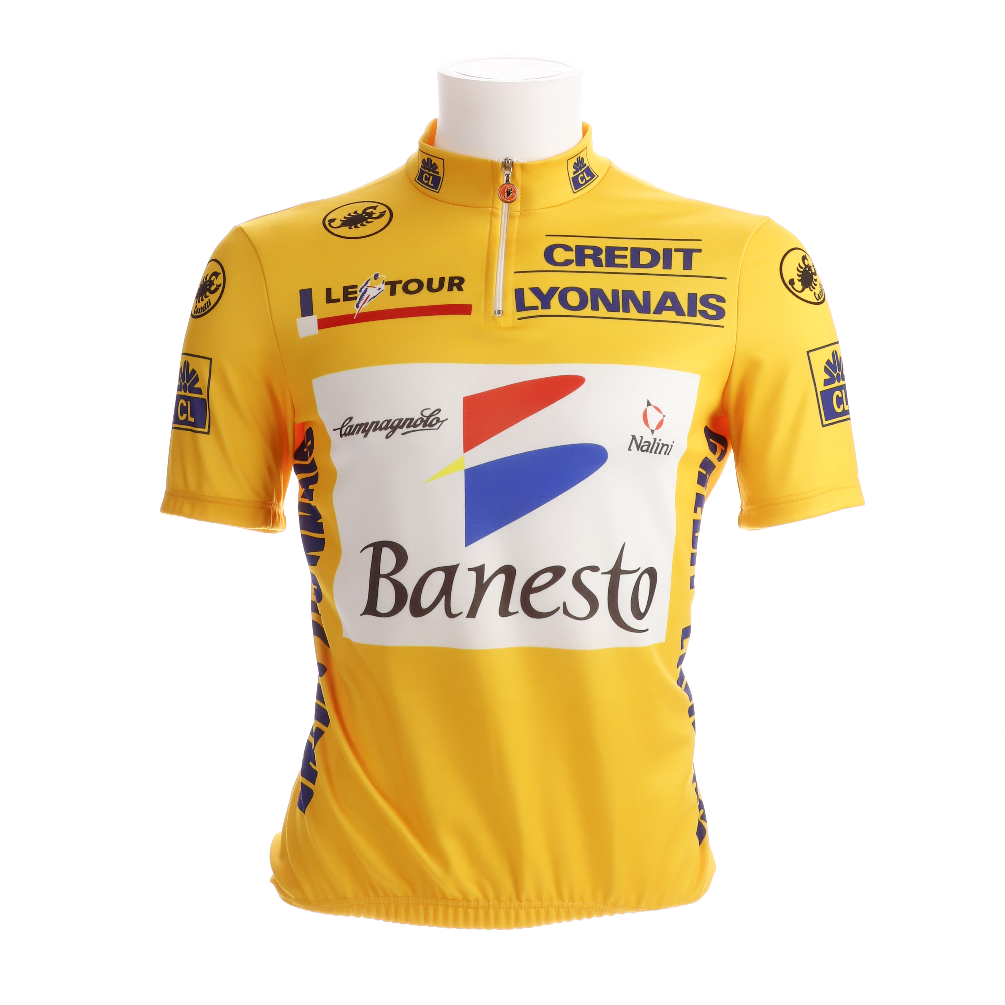 Miguel Indurain succeeded in 1995 in joining the distinguished list of five-time Tour de France winners. The Basque rider won the Tour de France five times in a row from 1991 to 1995, applying the same tactic over and over again: pulling out all the stops during the time trials and then holding onto his lead by following his competitors. A rather dull but highly effective strategy. 'The Big One' (because of his 1m88 height) won the time trial in 1992 with a three-minute lead over his first chaser - the highest lead ever achieved in the Tour de France.